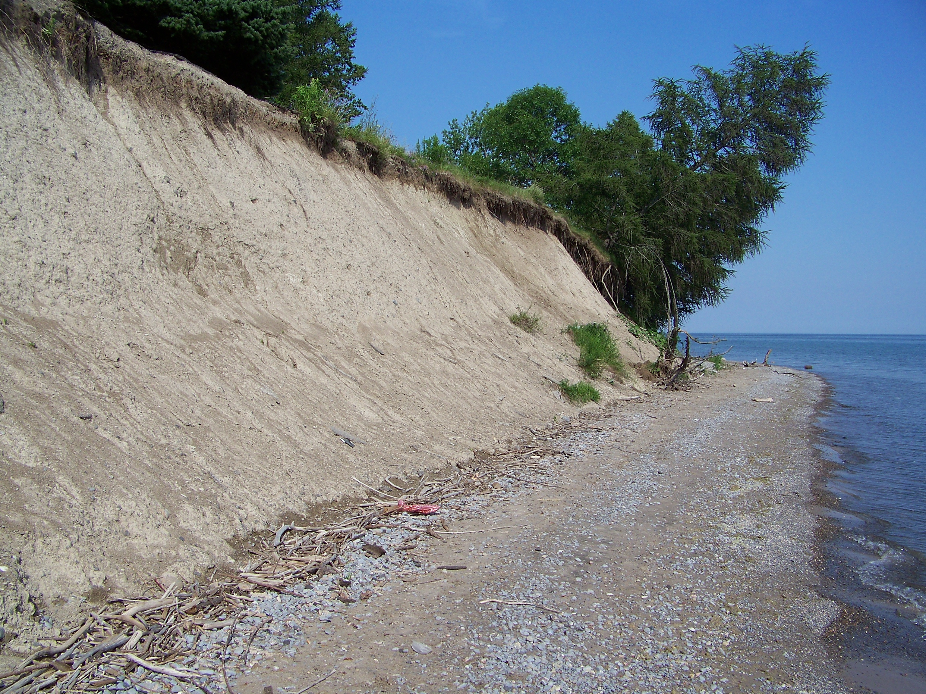 Stone-poor, carbonate-derived silty to sandy till cliff in Clarington, Ontario.